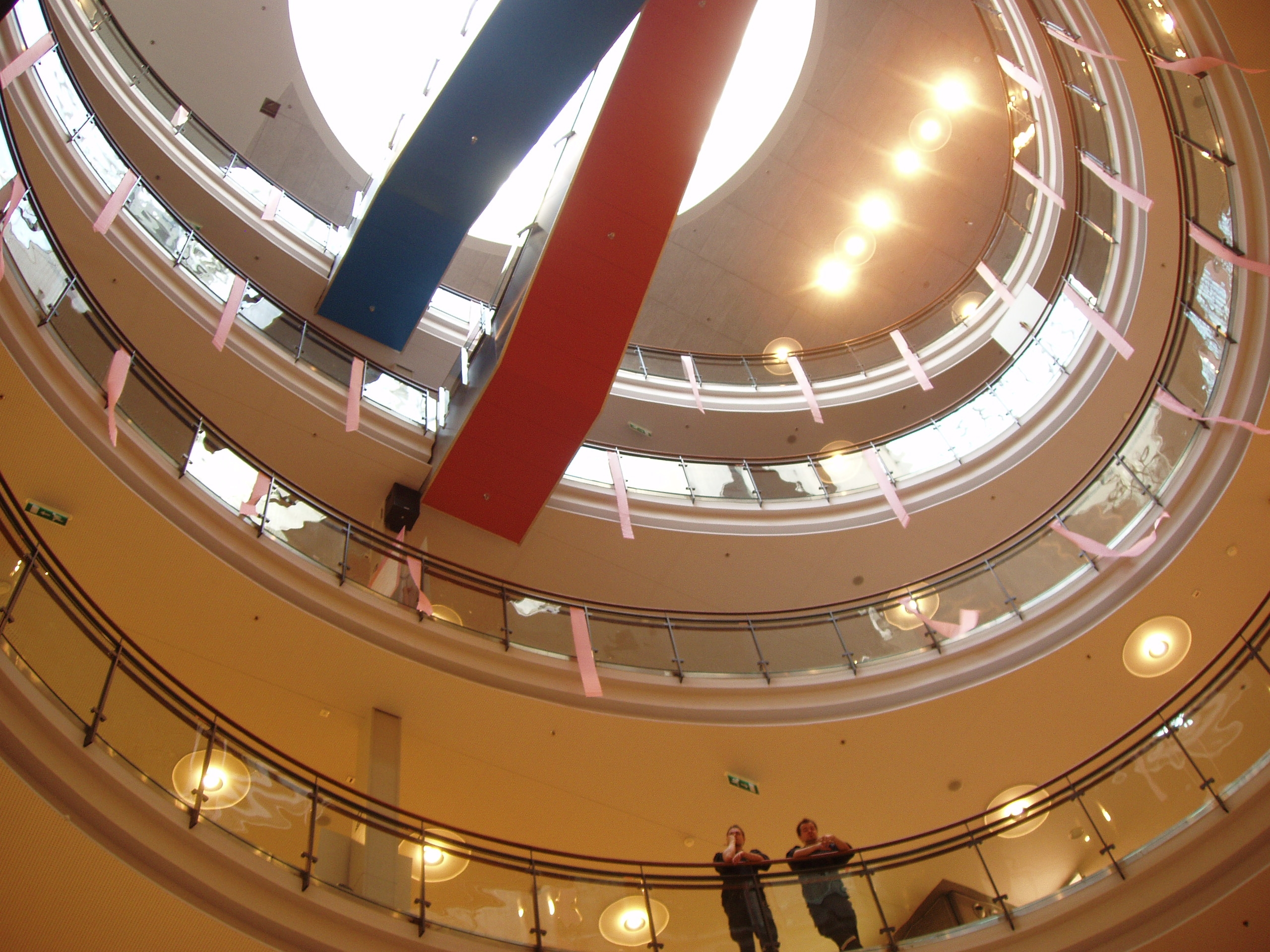 Juha Pallasmaa, Kamppi Centre, Helsinki, 2006. Photo by User TTKK